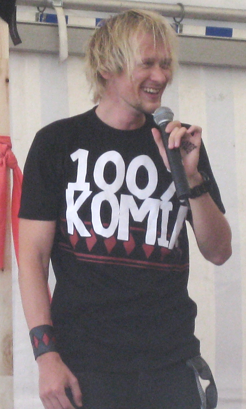 Jarno Laasala from The Dudesons in front of shopping mall Lanterna in Roihupelto, Helsinki